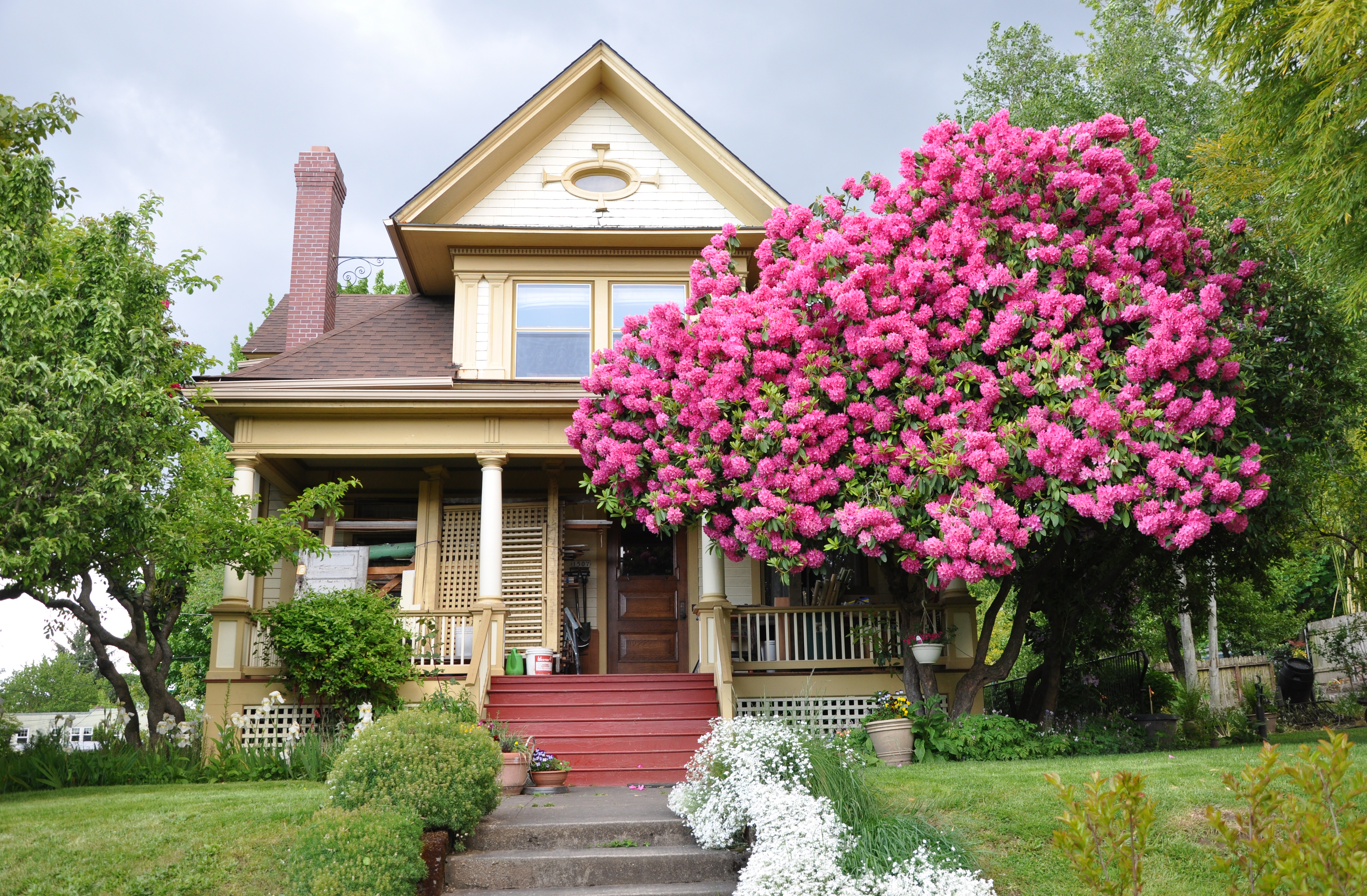 William O. Munsell House in Portland in the U.S. state of Oregon. The structure is on the National Register of Historic Places.